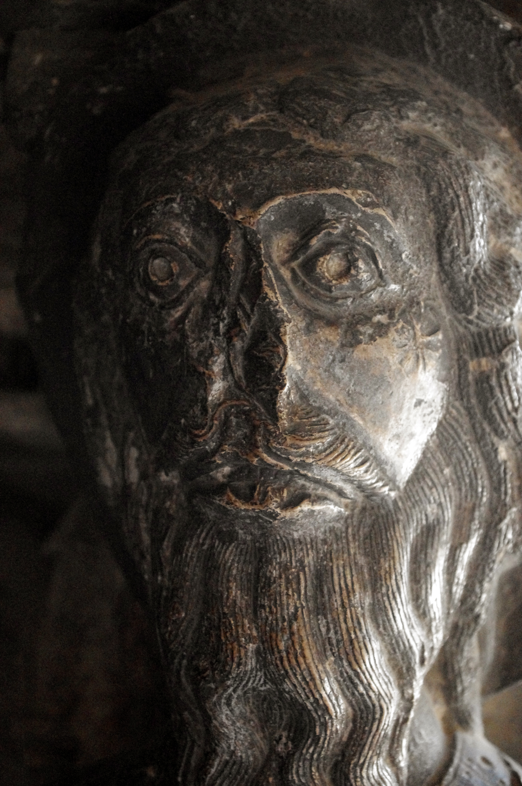 12th century romanesque head of Gamaliel, eastern gallery of the cloister of Saint-Trophime, in Arles, France